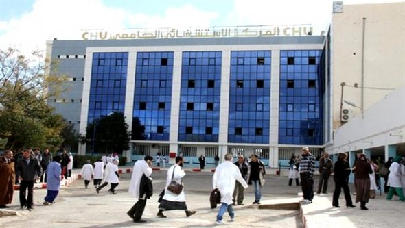 MED Faculty UB2